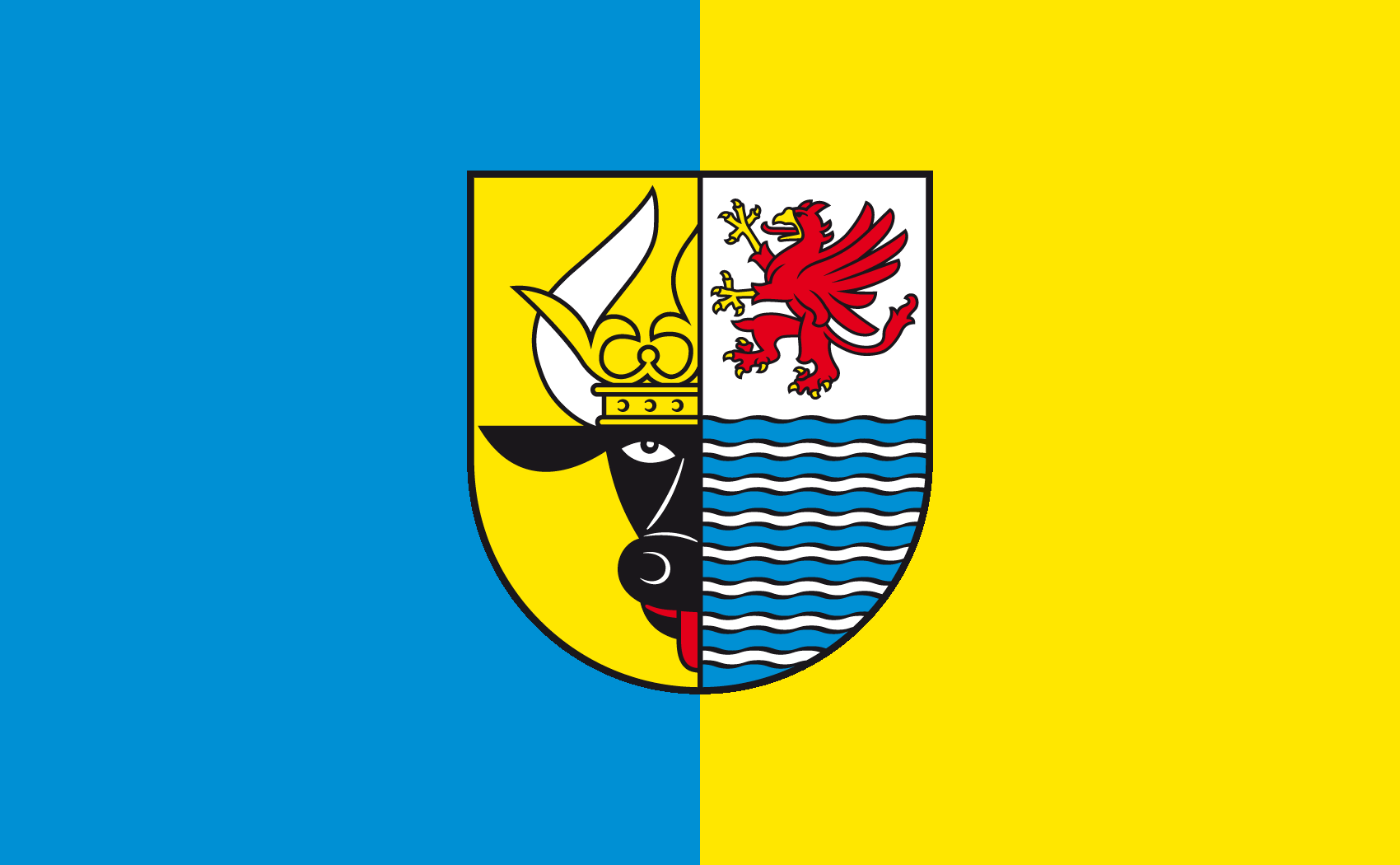 flag of the German district of Mecklenburgische Seenplatte, granted 11 March 2014.